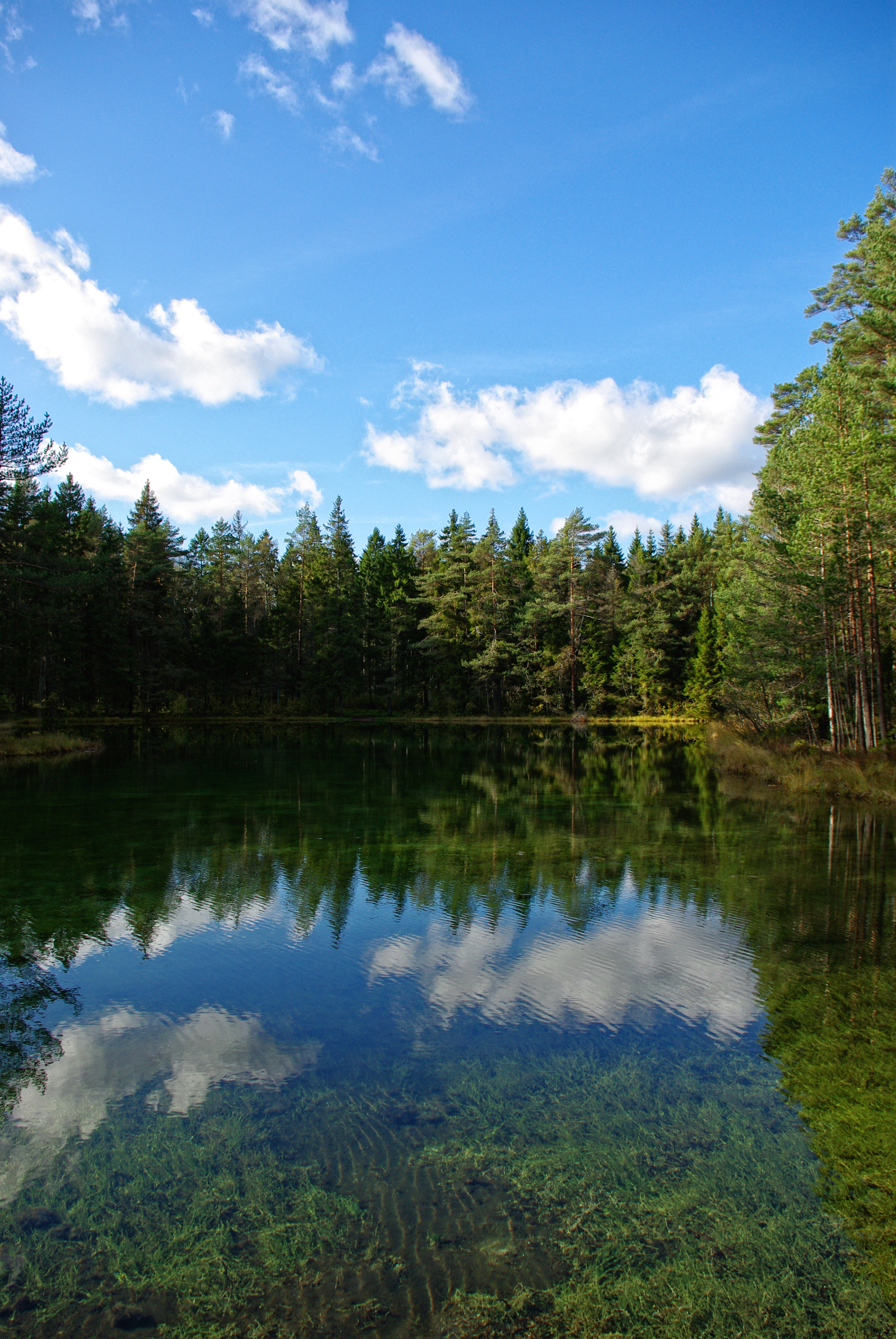 lake Äntu Sinijärv (Blue Lake)